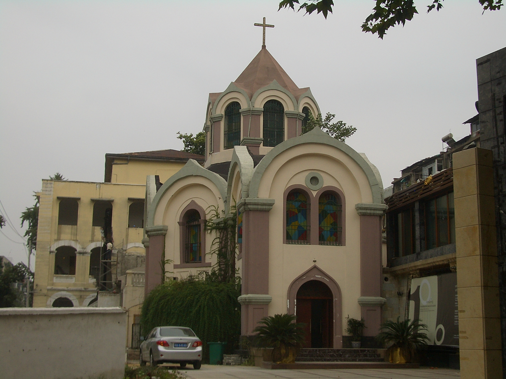 Former Orthodox church in Hankou (Wuhan)